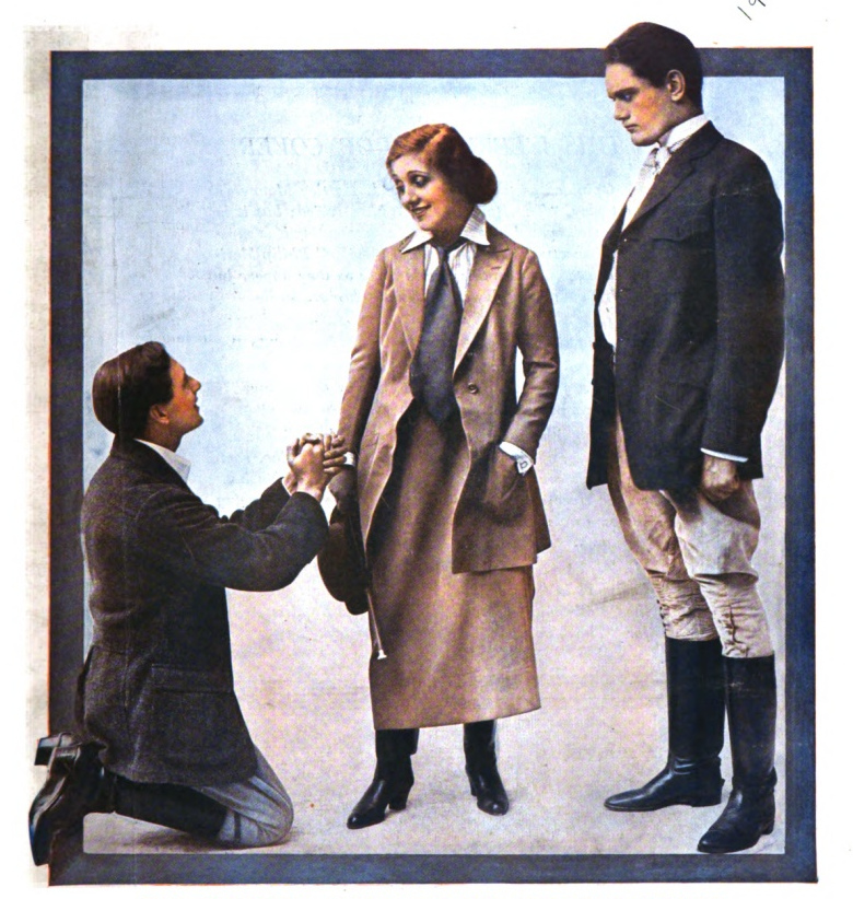 Cover of The New York Dramatic Mirror featuring Dion Titheradge (left), Laurette Taylor (center), and Philip Merivale (right) in The Harp of Life